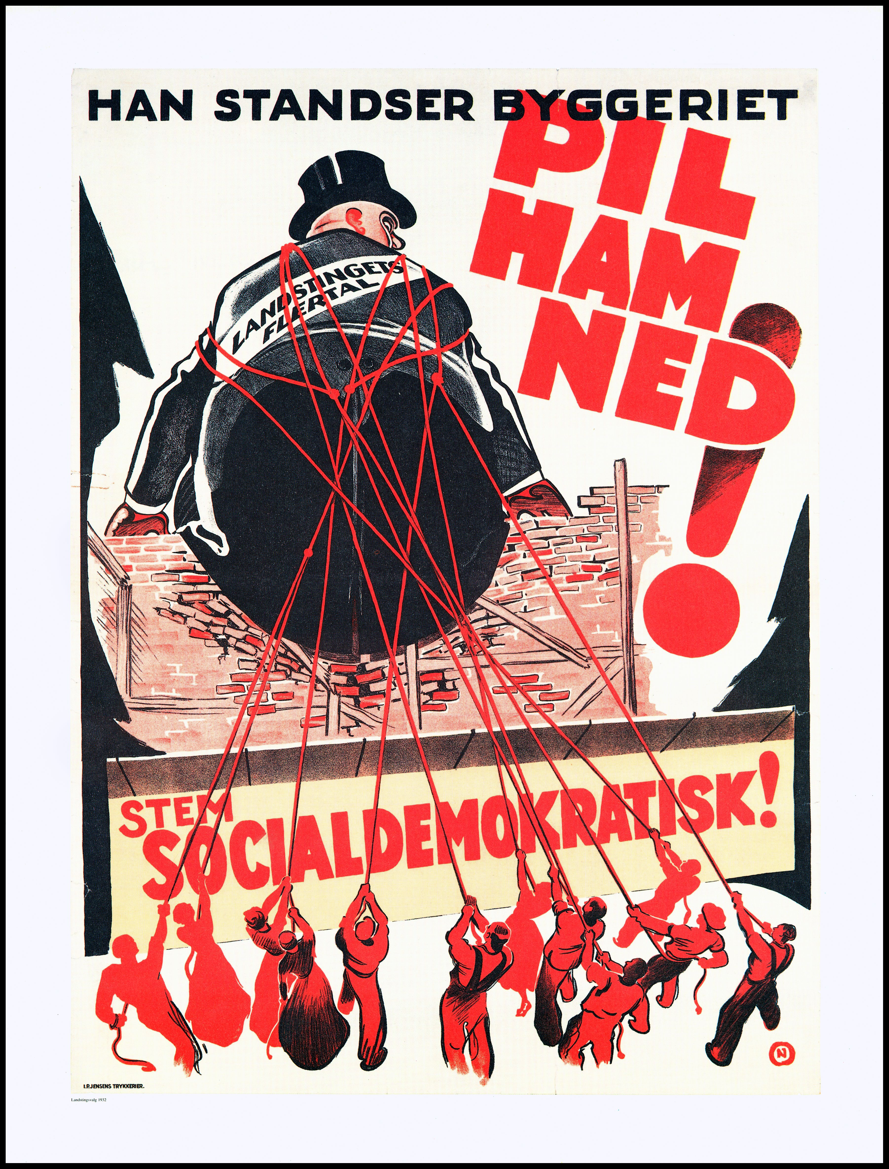 Election poster, Social Democrats in Denmark, for the election to Landstinget 13 September 1932